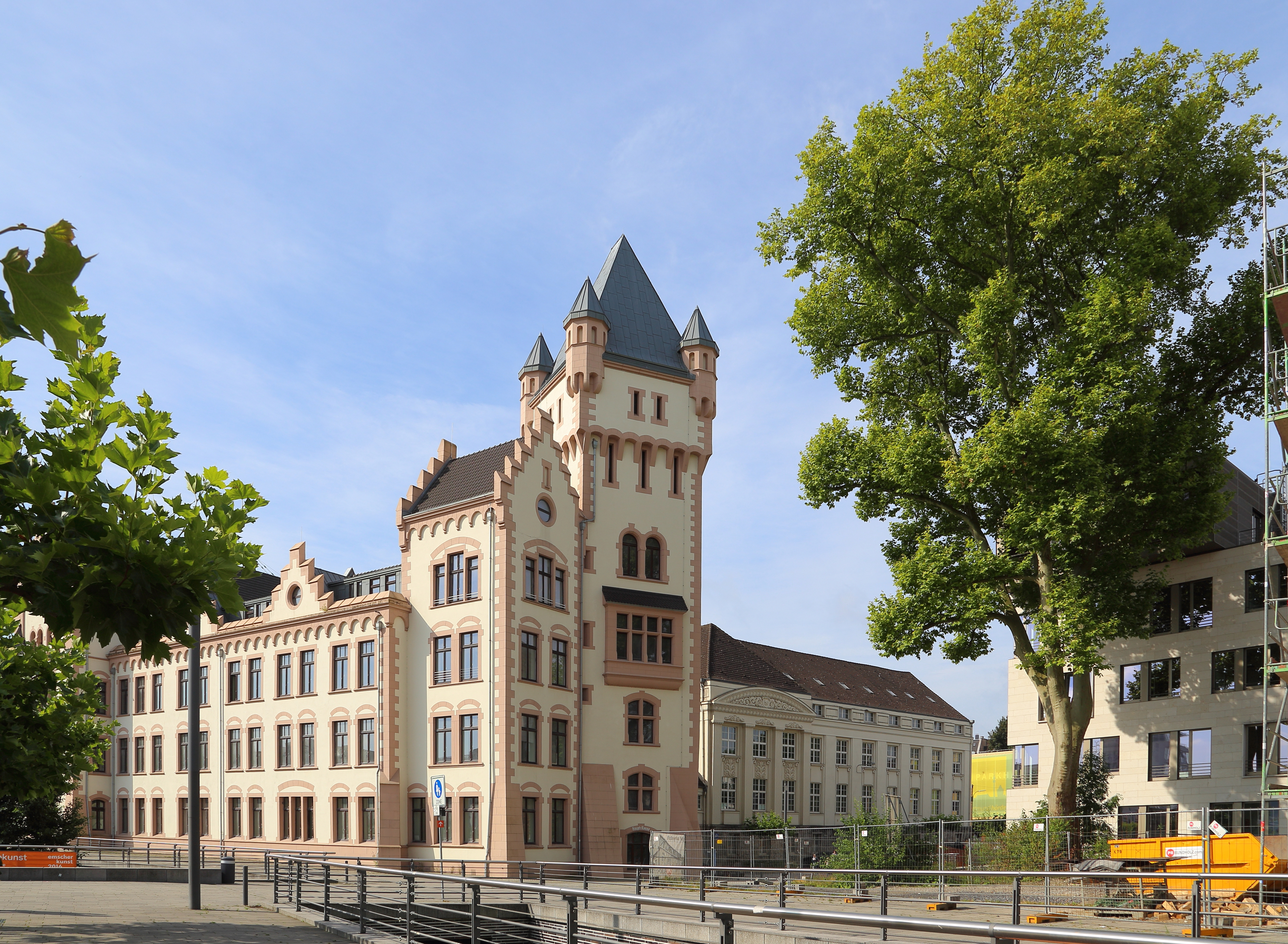 Horde Castle (Hörder Burg) in Hörde, Dortmund-Hörde, district of Dortmund, North Rhine-Westphalia, Germany.